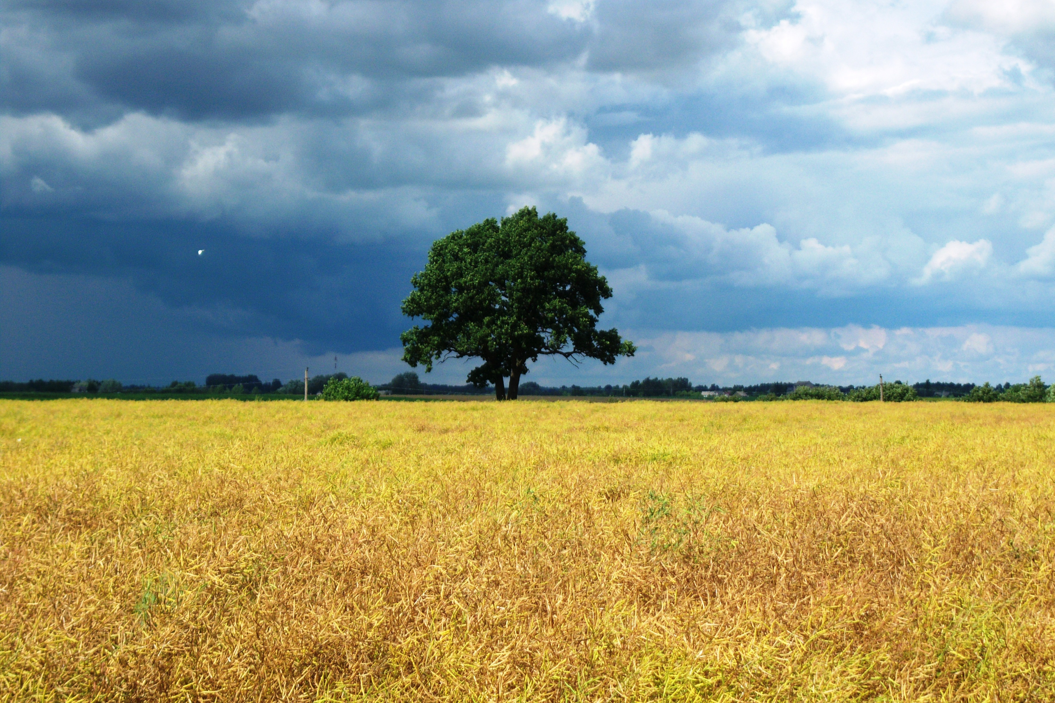 Nevėžis dual trunk oak near Dasiūnai, Kaunas district, Lithuania